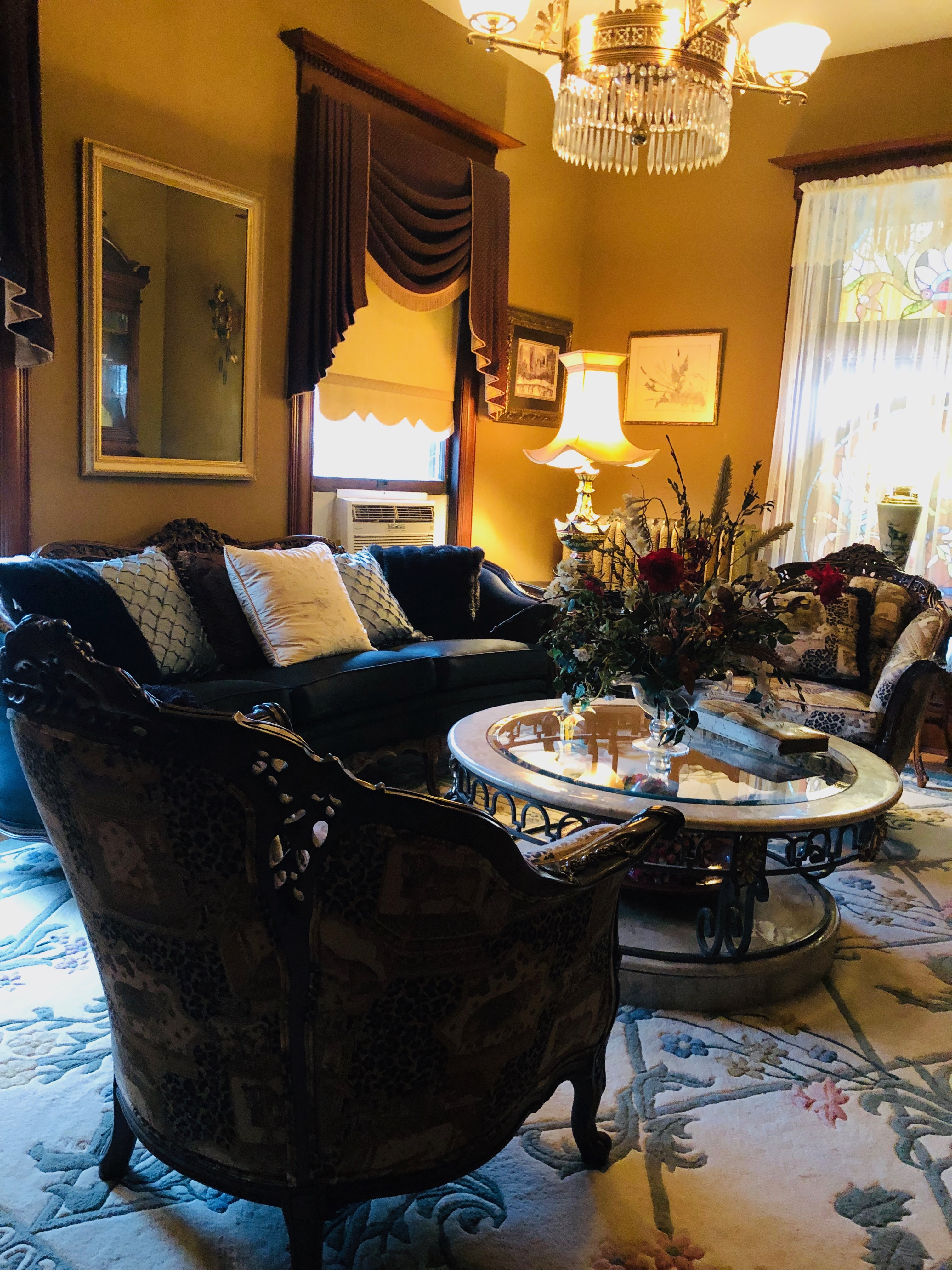 This photo was taken 17 June, 2018